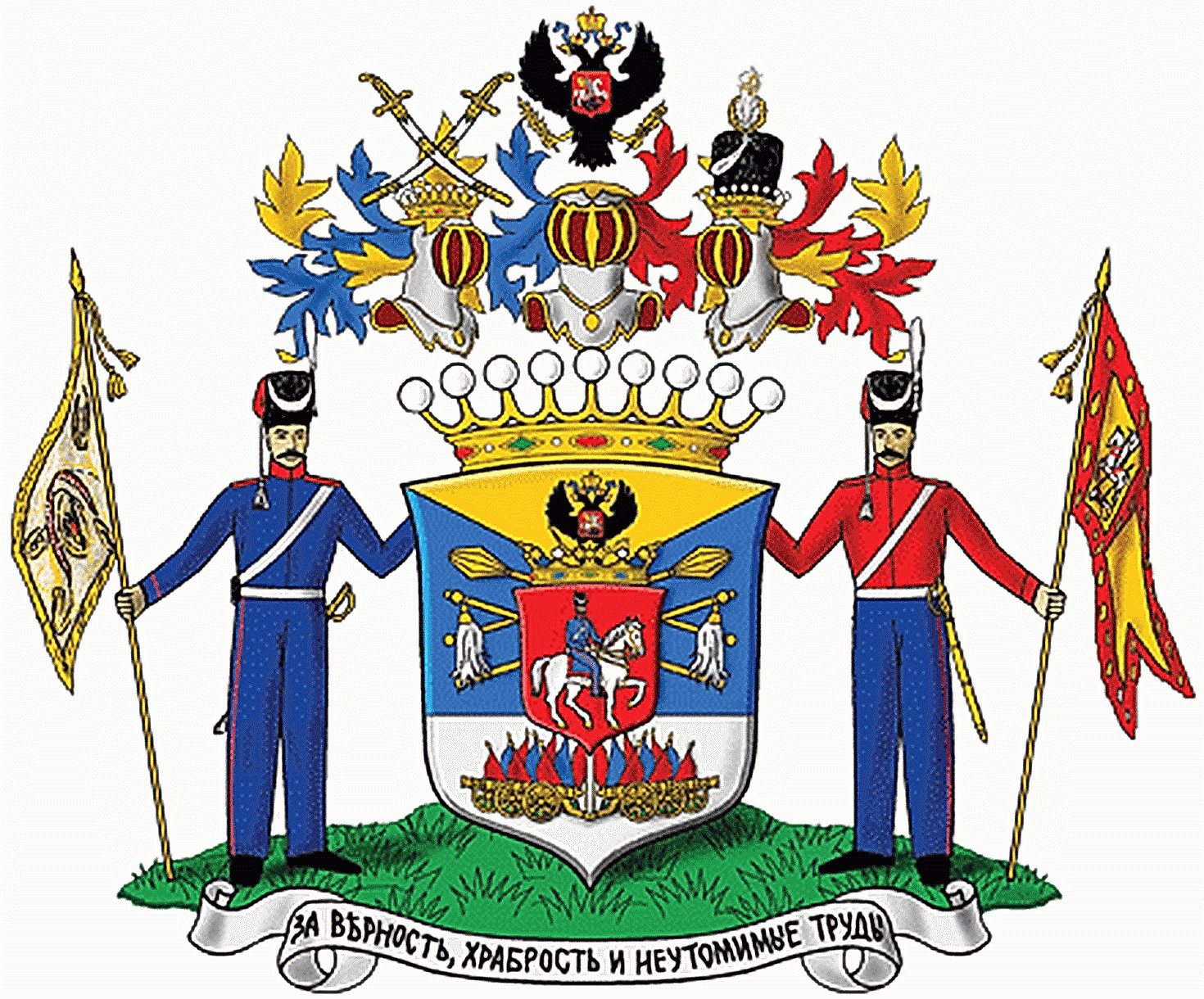 Coat of Arms of family Platov